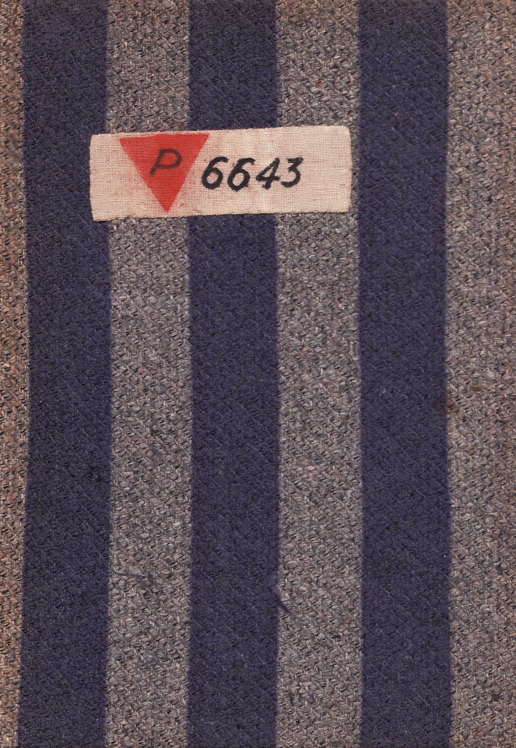 Original Nazi concentration camp uniform fabric sample